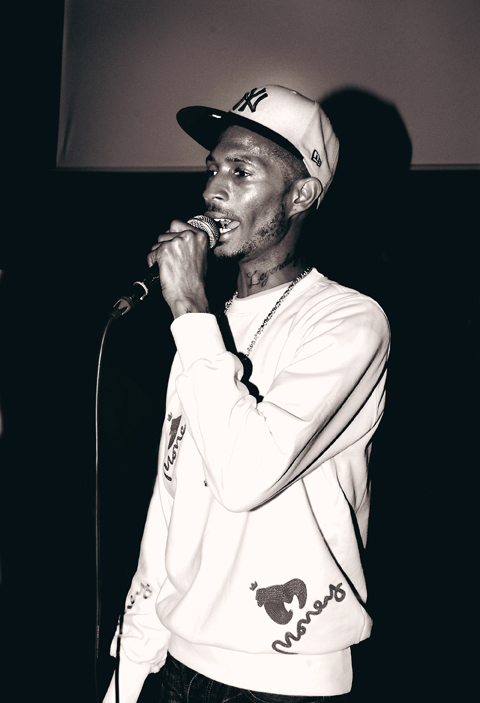 D Double E, Oi! venue Paradiso, Amsterdam 18 june 2010